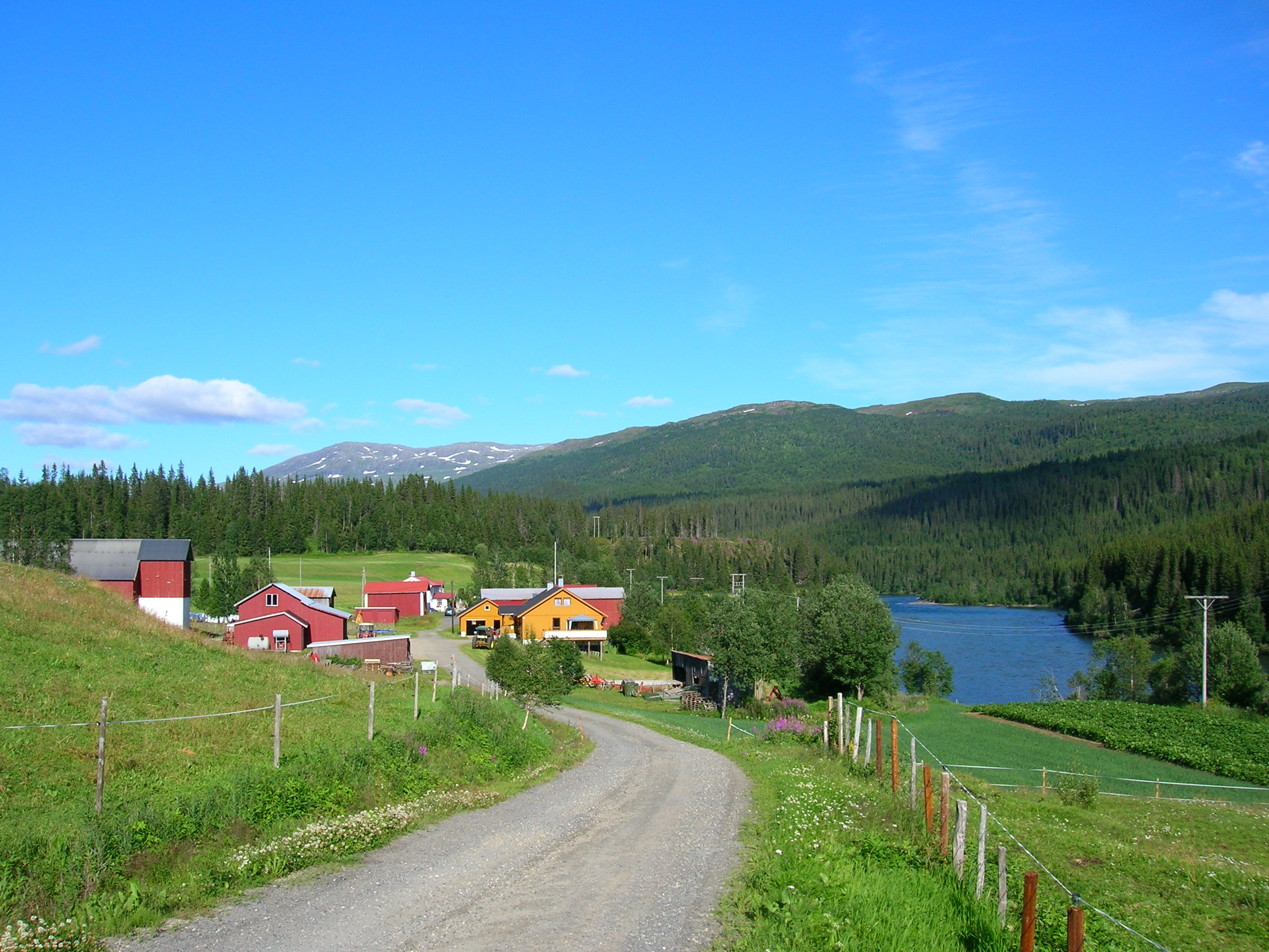 Farms of Eiterå, Dunderlandsdalen in Rana municipality, county of Nordland, Norway. Photo July 19, 2007 with a Nikon Coolpix 5600 5,1 Megapixel camera.